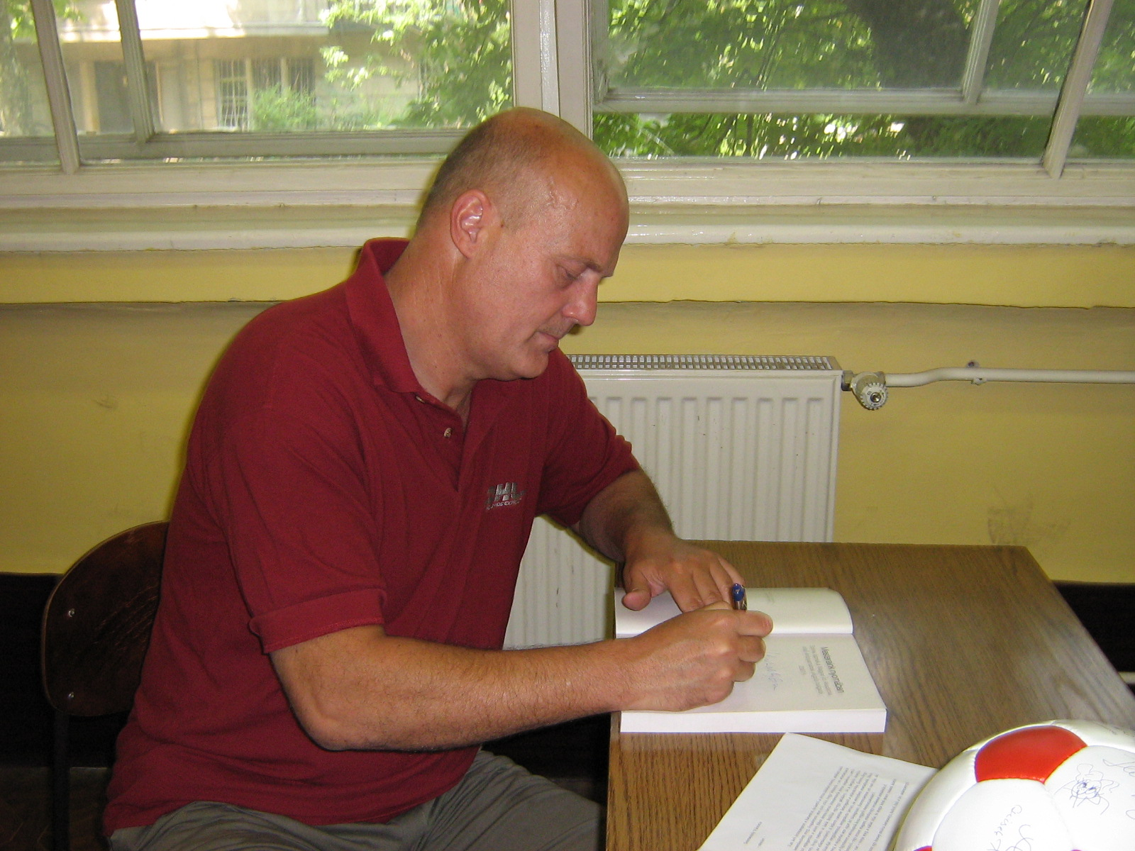 Hungarian writer Endre Kukorelly at school.